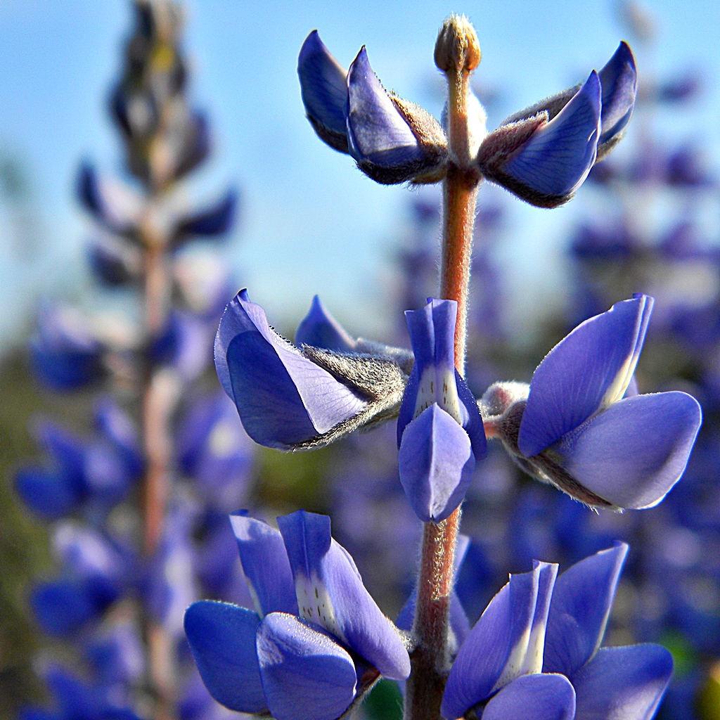 Sky Blue Lupines (Lupinus diffusus) are blooming! No matter where you are or how cold it may be, I promise Spring is on the way! These beauties are in the ancient sand dunes of Juno Dunes Natural Area, Palm Beach County, Florida. Saturday, February 5th.